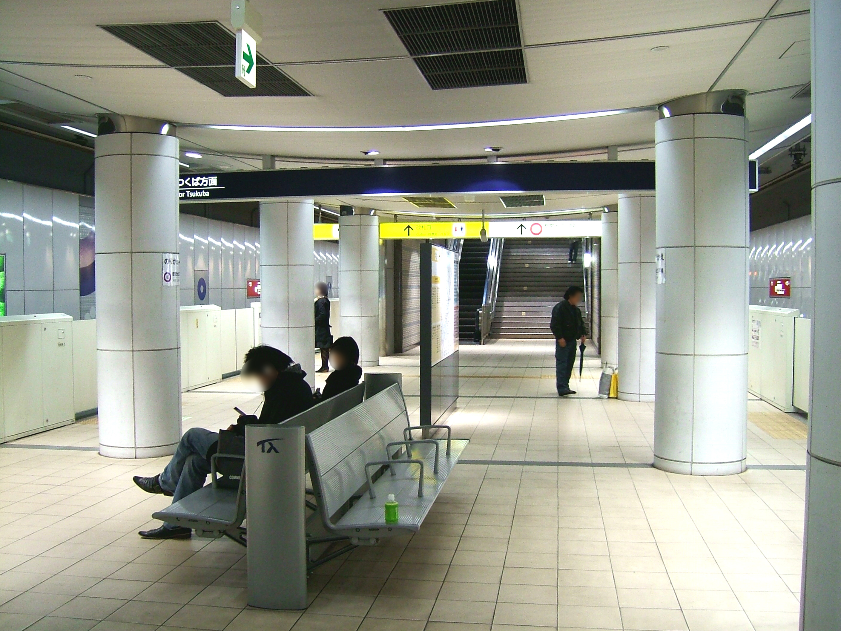 Shin-Okachimachi Station platform (Tsukuba Express)